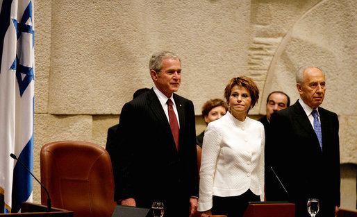 President George W. Bush stands with Dalia Itzik, Speaker of the Knesset, and Israel’s President Shimon Peres on the floor of the Knesset Thursday, May 15, 2008, in Jerusalem. During his remarks to the members of the Israel parliament, President Bush said, “We gather to mark a momentous occasion. Sixty years ago in Tel Aviv, David Ben-Gurion proclaimed Israel's independence, founded on the "natural right of the Jewish people to be masters of their own fate." What followed was more than the establishment of a new country. It was the redemption of an ancient promise given to Abraham and Moses and David -- a homeland for the chosen people Eretz Yisrael.” White House photo by Shealah Craighead